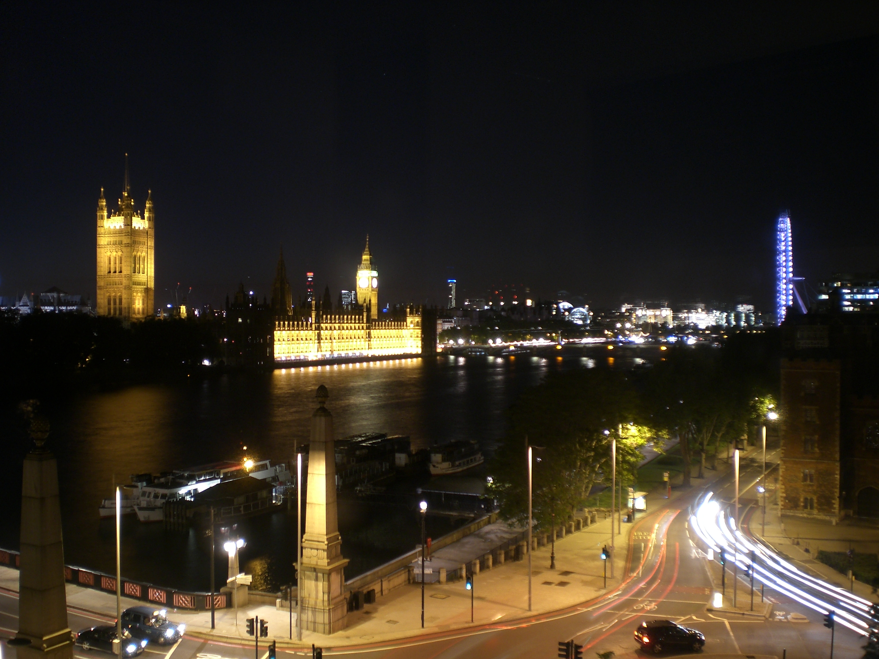 British Parliament and London Eye at night